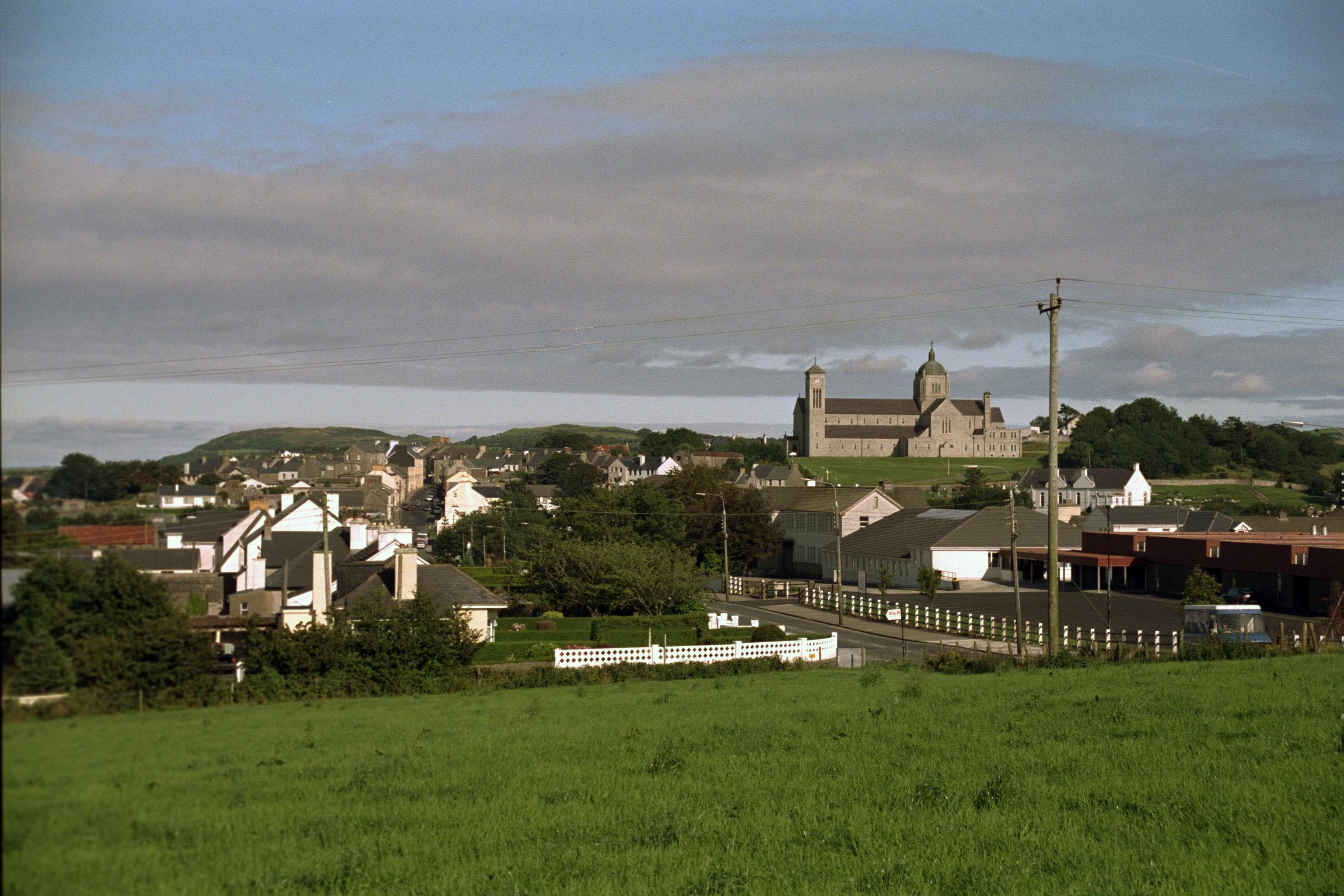 Carndonagh, County Donegal in Ireland, as seen from south-west.